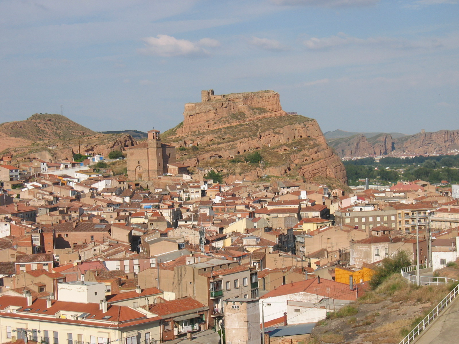 General view of Arnedo, La Rioja, Spain. The castle of this town can be seen on the background.